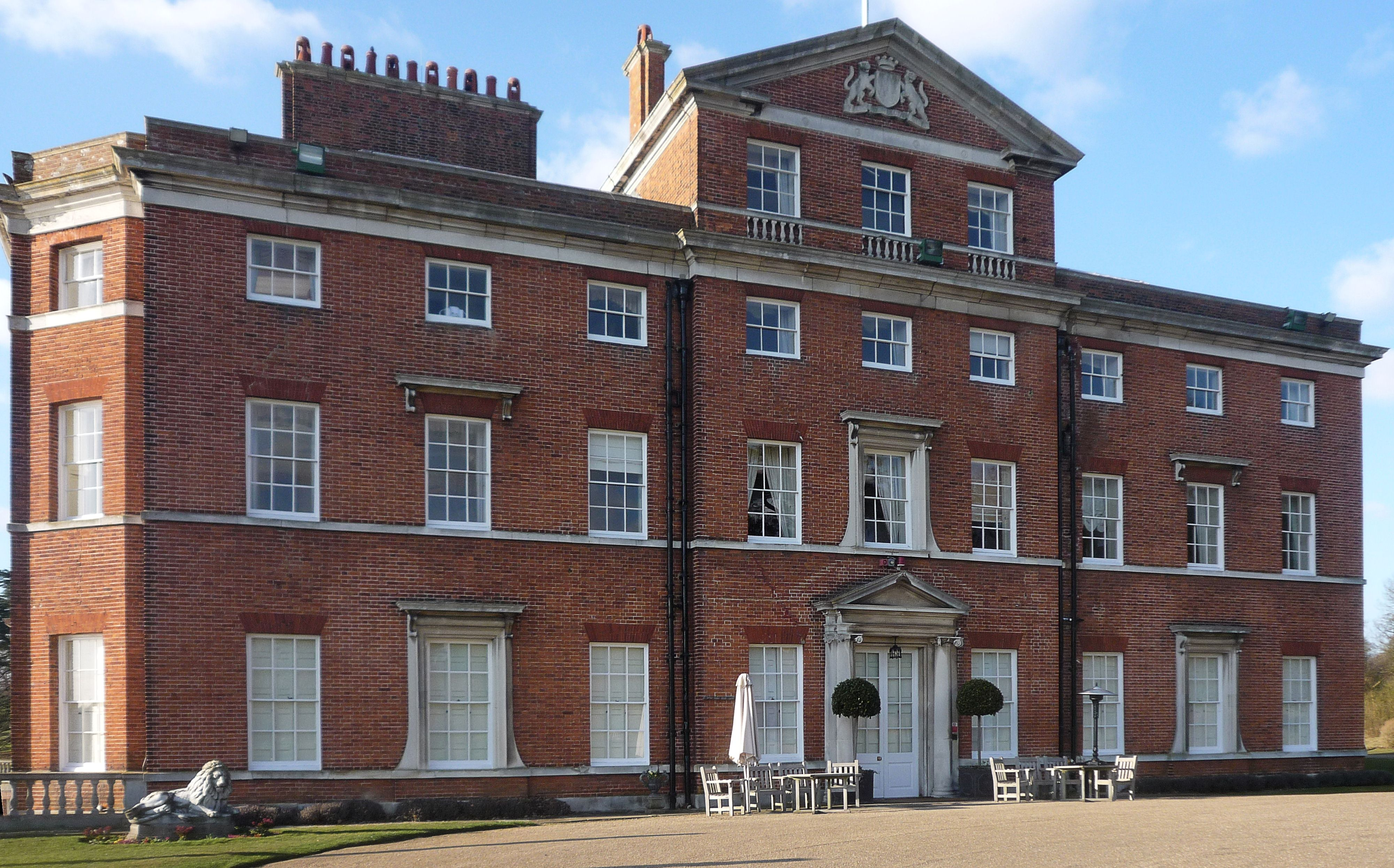 Photo of Brocket Hall, front view.